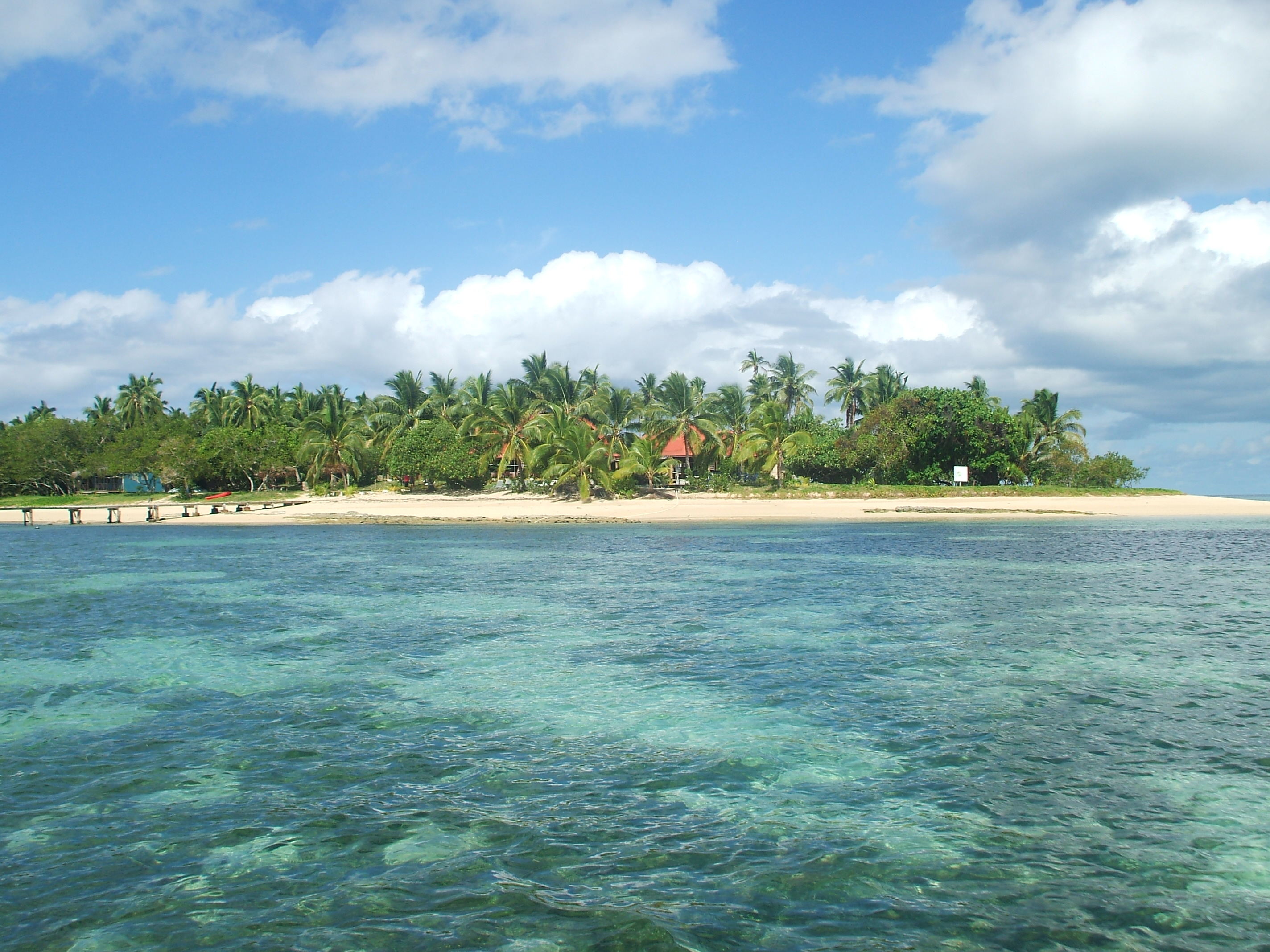 Royal Sunset Island Resort at 'Atata Island, 30 min boat ride from Tongatapu.